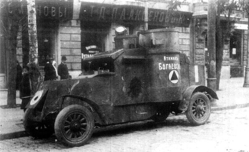 Austin (3rd series) Armoured Car "Ataman Bogaevskiy" of the Don Army in 1919.